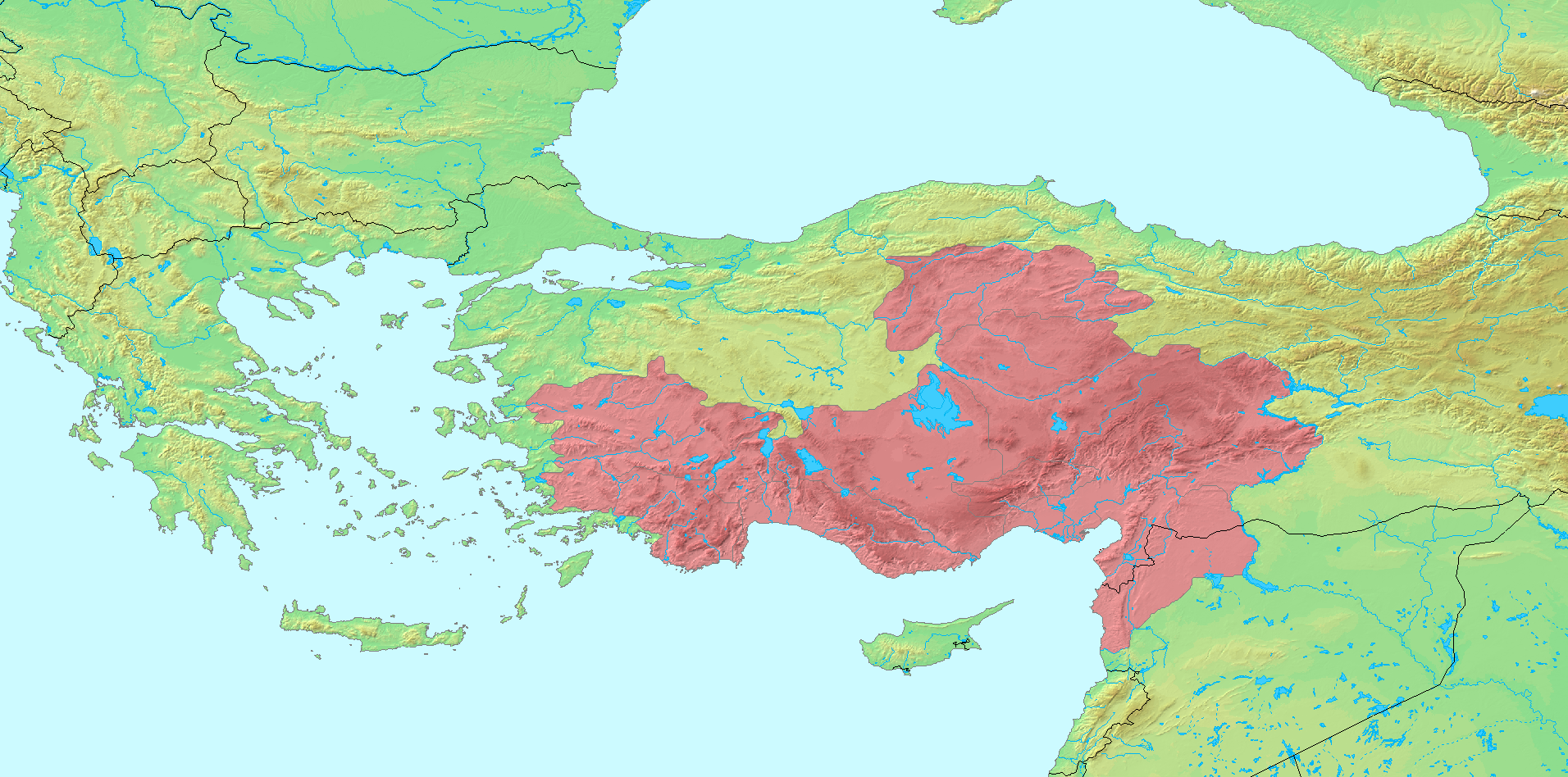 Anatolian languages map